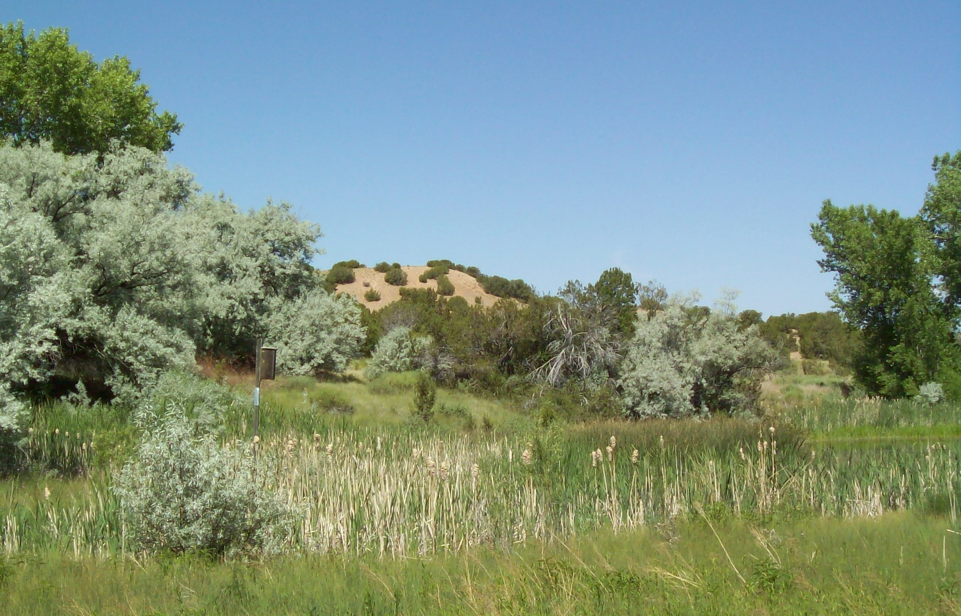 Leonora Curtin Wetland Preserve, La Cienega, New Mexico, a cienega in the desert